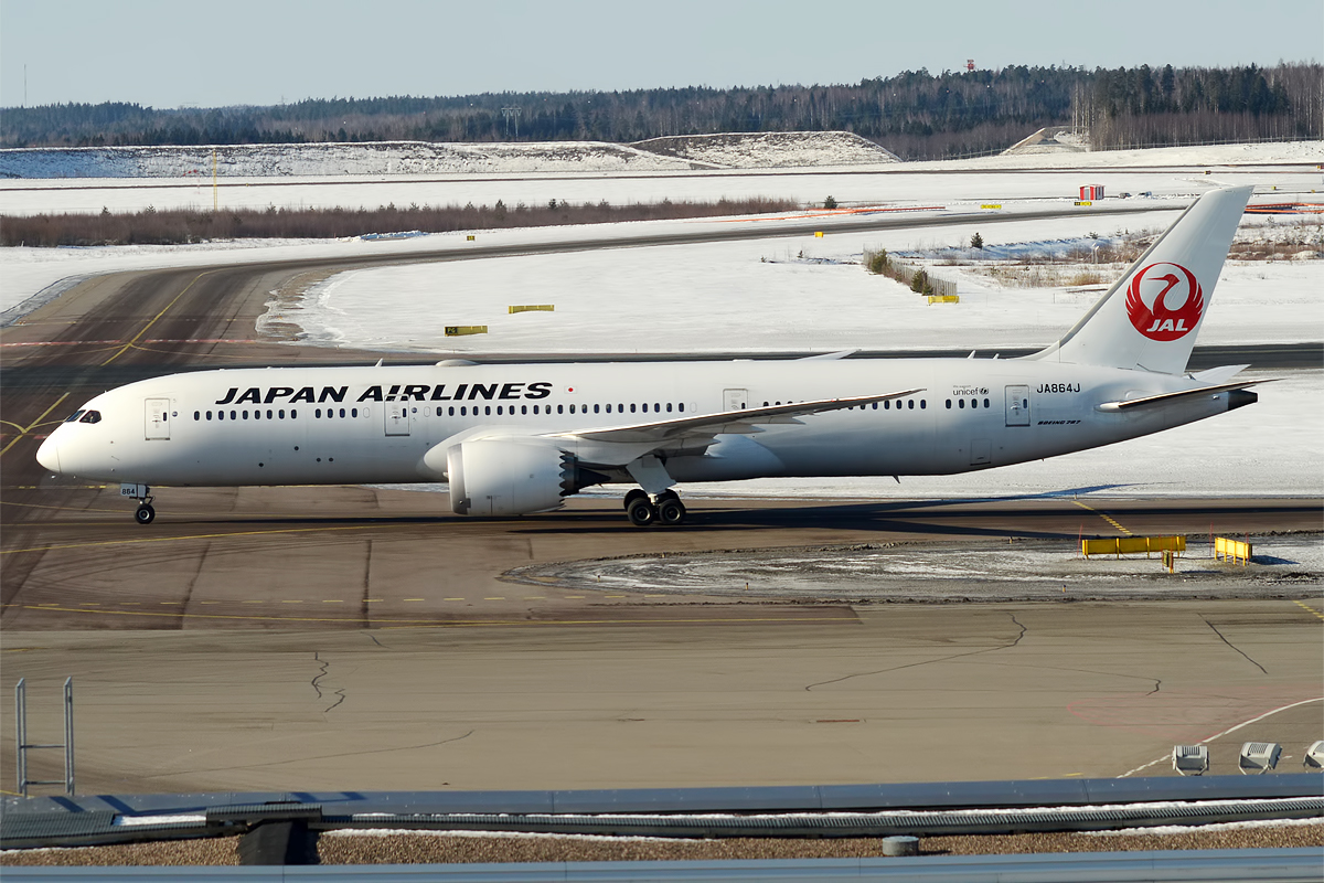 Japan Airlines, JA864J, Boeing 787-9 Dreamliner